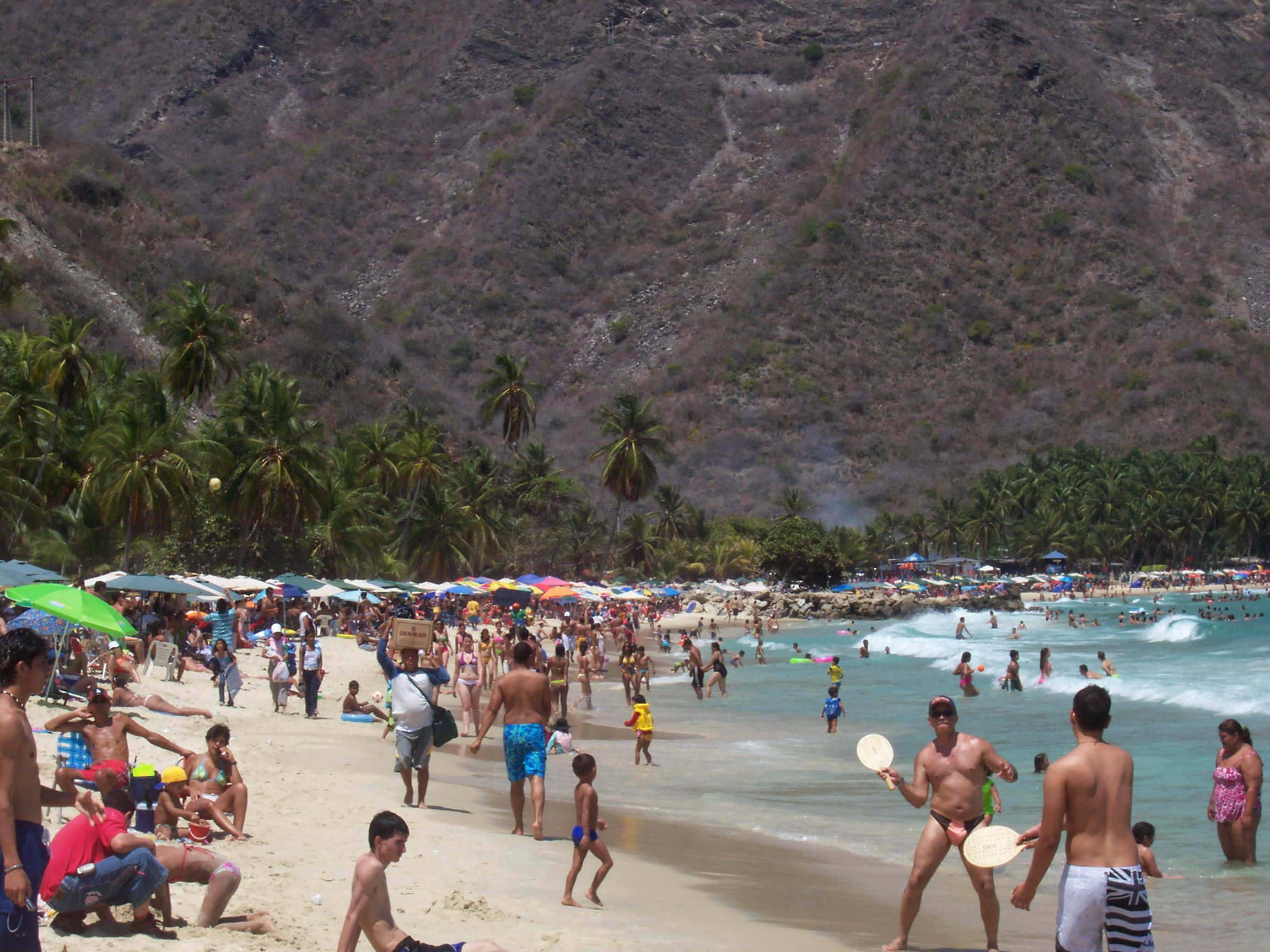 Main bay at Ocumare de la Costa in Aragua, Venezuela.